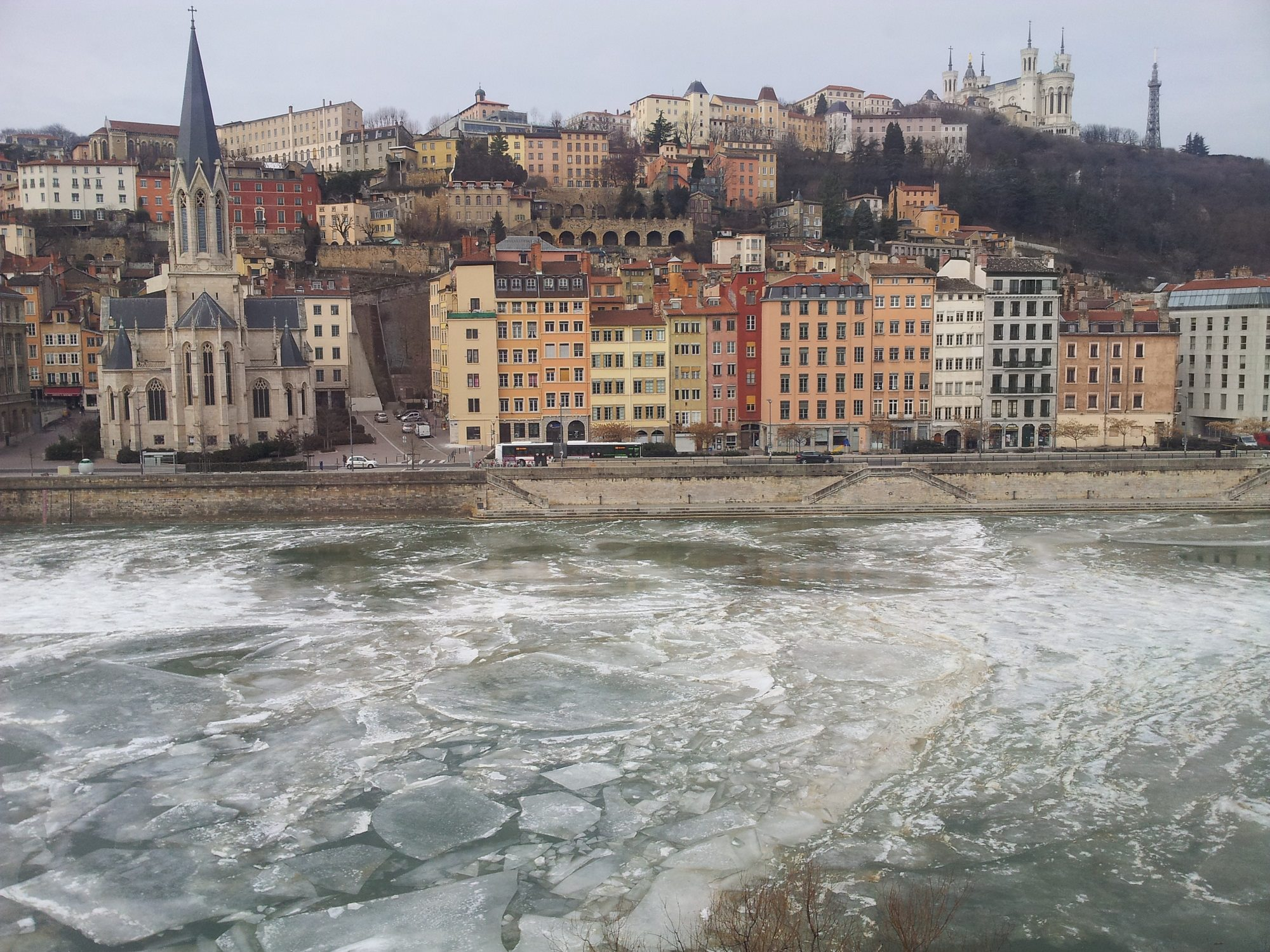 View over the Saône river, Lyon, France. Taken on Quai Tilsit